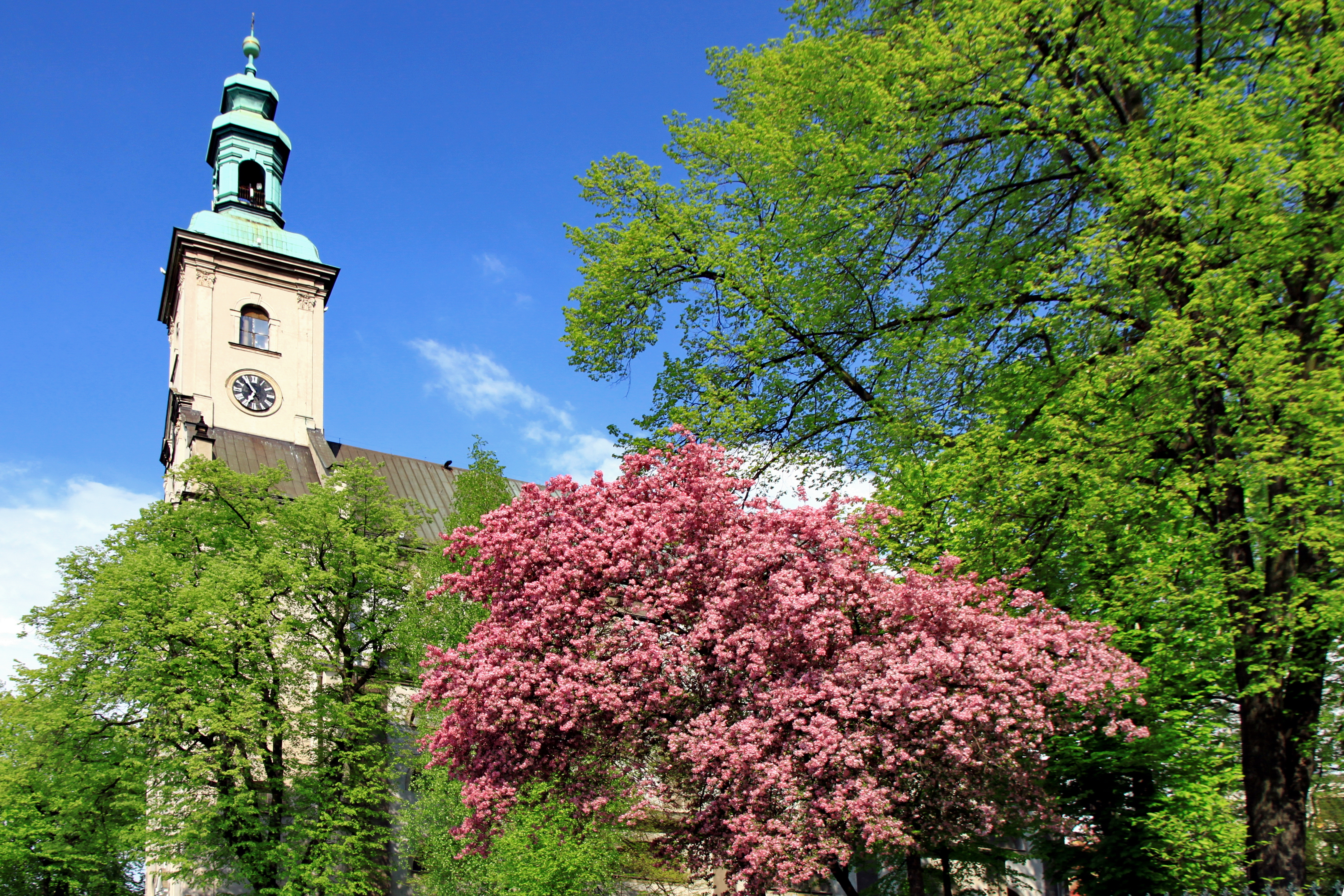 Cieszyn, lutheran Church of Jesus, build in 1709-1750